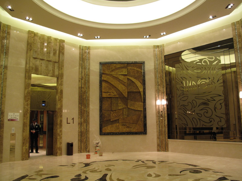 HK Lohas Park The Capital Liftlobby